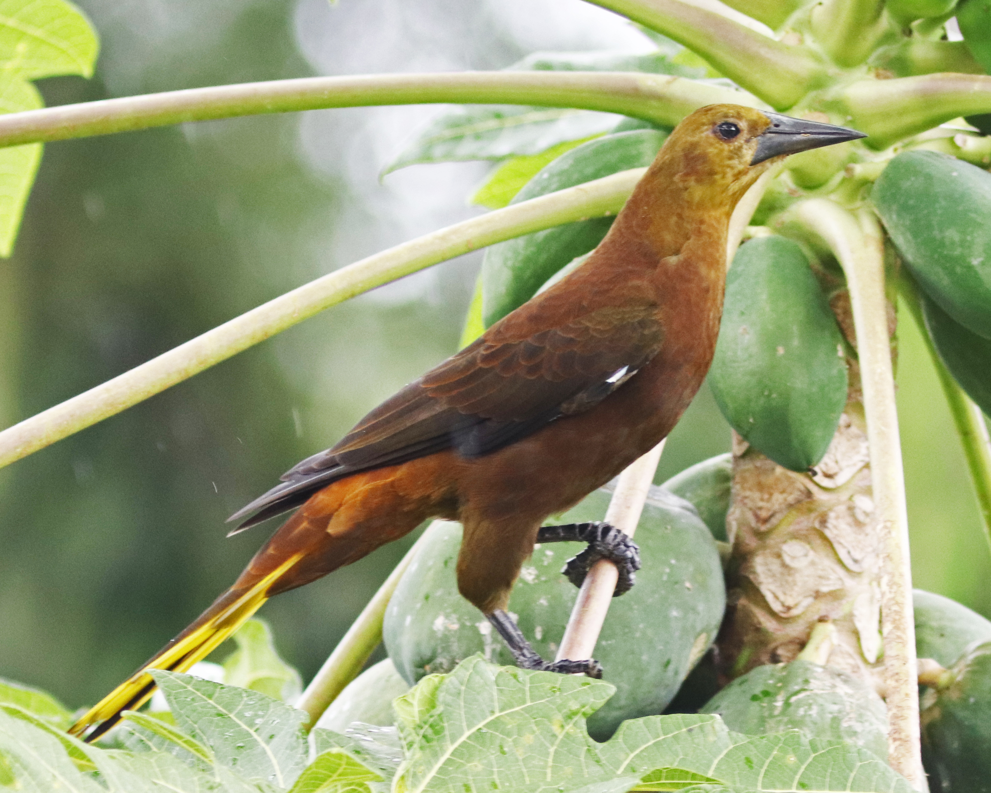 a photo of a Russet-backed Oropendola taken at San Jorge Sumaco Balo near Loreto, Ecuador